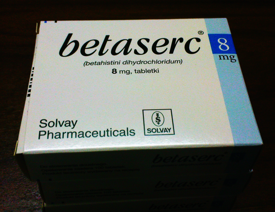 Betaserc - Betahistine